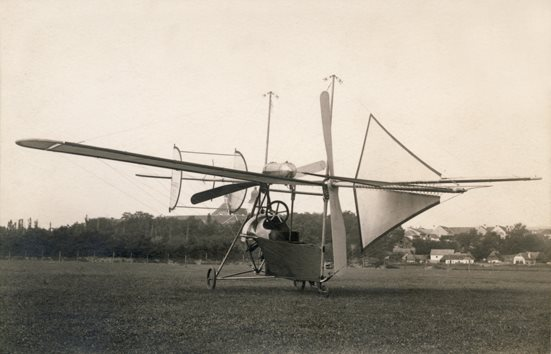 Rear view of A Vlaicu II airplane